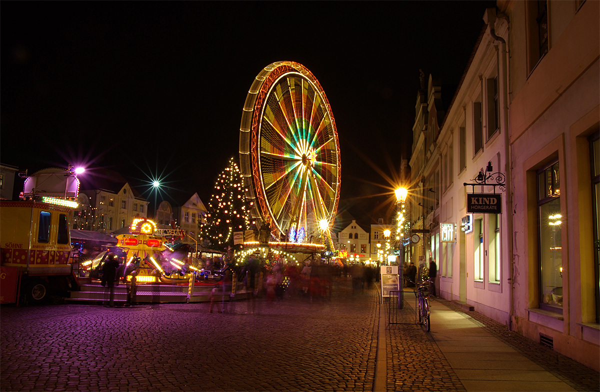 Christmas market in Cottbus, Brandenburg, Germany